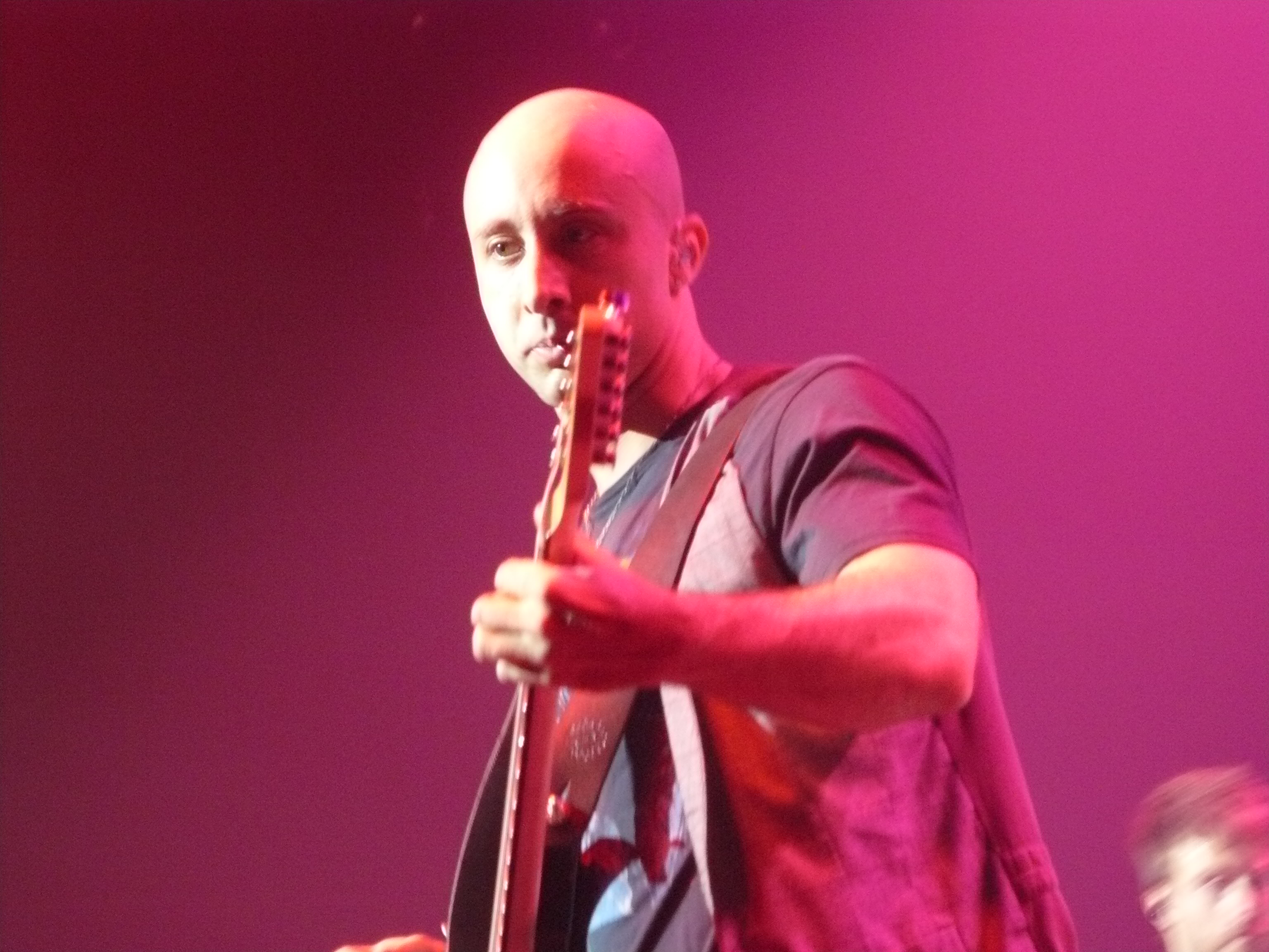 Stinco on guitar for Simple Plan at the second Tokyo show, 28 May 2008